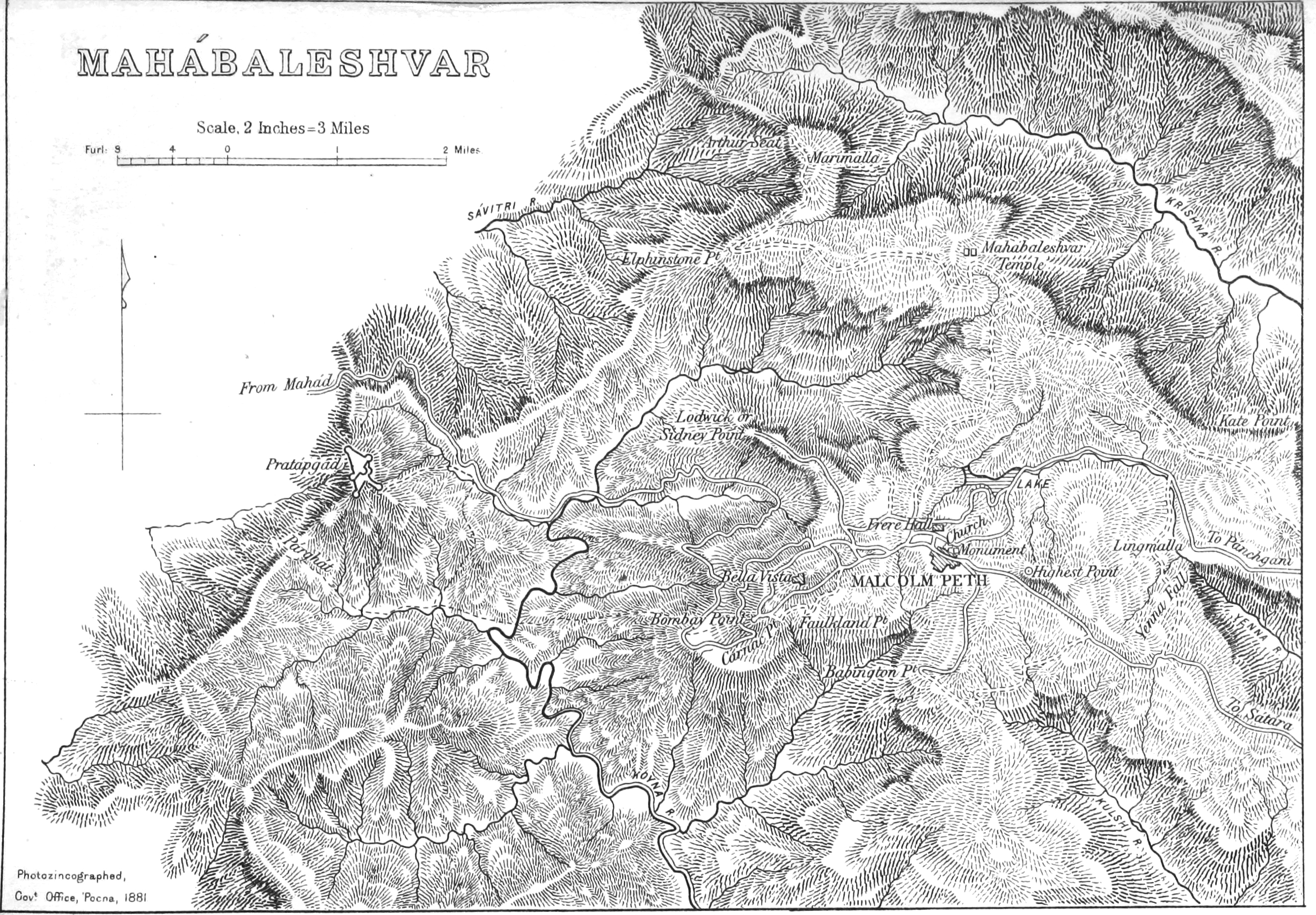 Map of Mahabaleshwar